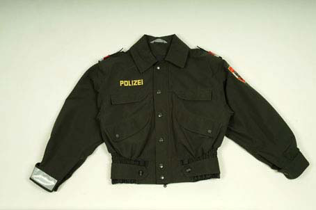 This image is in the public domain according to Austrian copyright law because it is part of a law, ordinance or official decree issued by an Austrian federal or state authority, or because it is of predominantly official use. (§7 UrhG) To uploader: Please provide where the image was first published and who created it. Bundespolizei – Blouson, grün